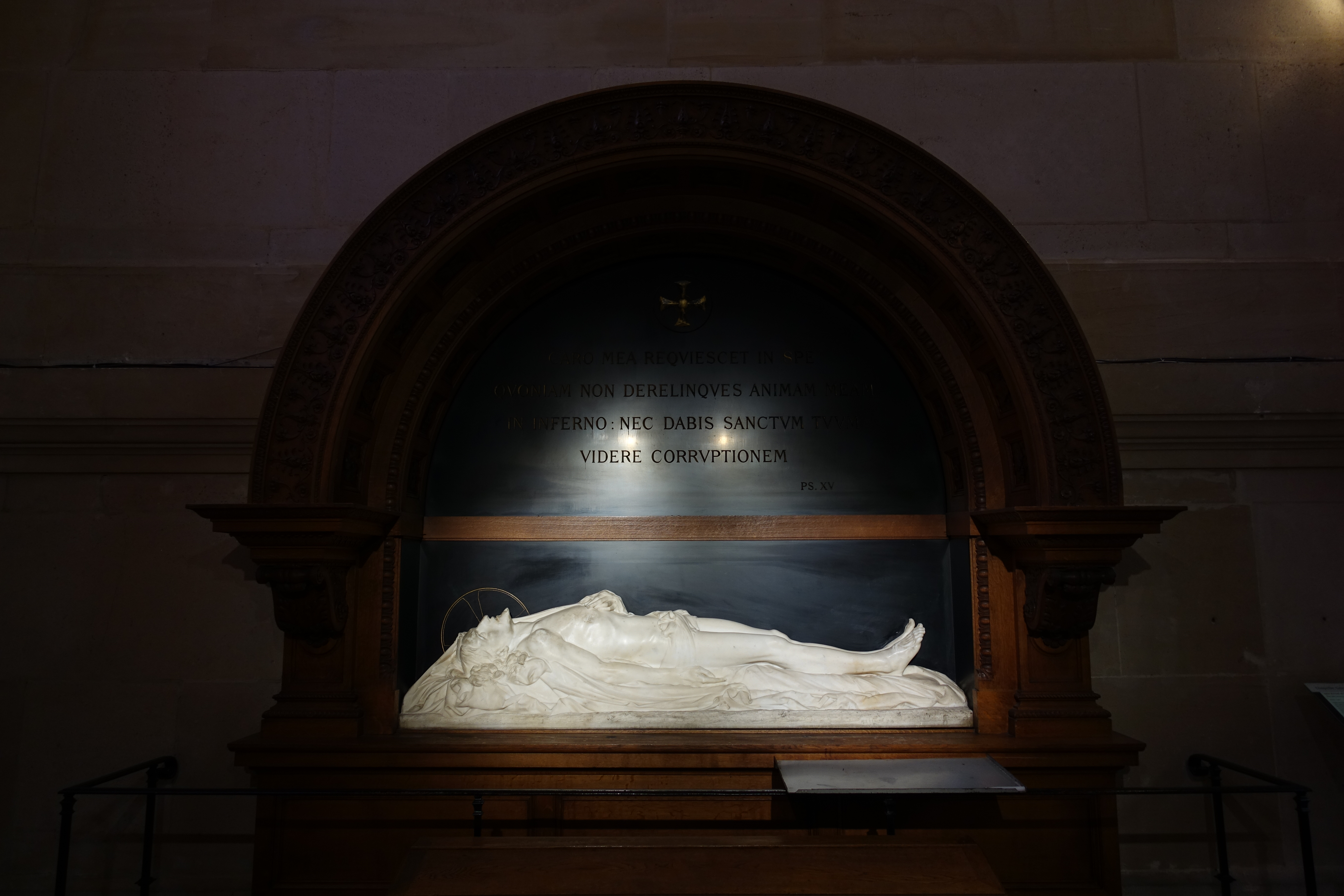 Église Saint-François-Xavier, a Roman Catholic church and parish in the 7th arrondissement of Paris dedicated to Francis Xavier. Address: 39 Boulevard des Invalides, 75007 Paris, France.